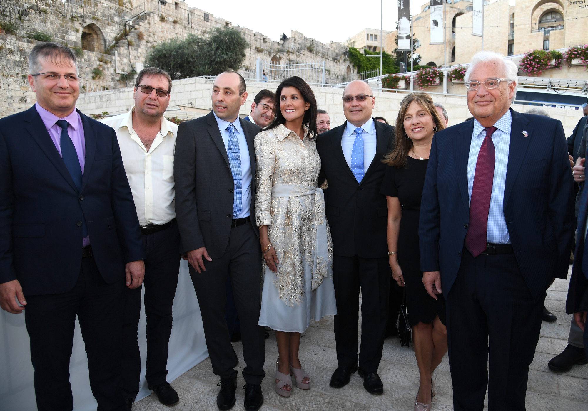 U.S. Ambassador to Israel David Friedman, former U.S. Ambassador to the United Nations Nikki Haley and Special Representative for International Negotiations Jason Greenblatt participate in the Israel Hayom Forum for Israel-U.S. Relations in Jerusalem, Jerusalem June 27, 2019